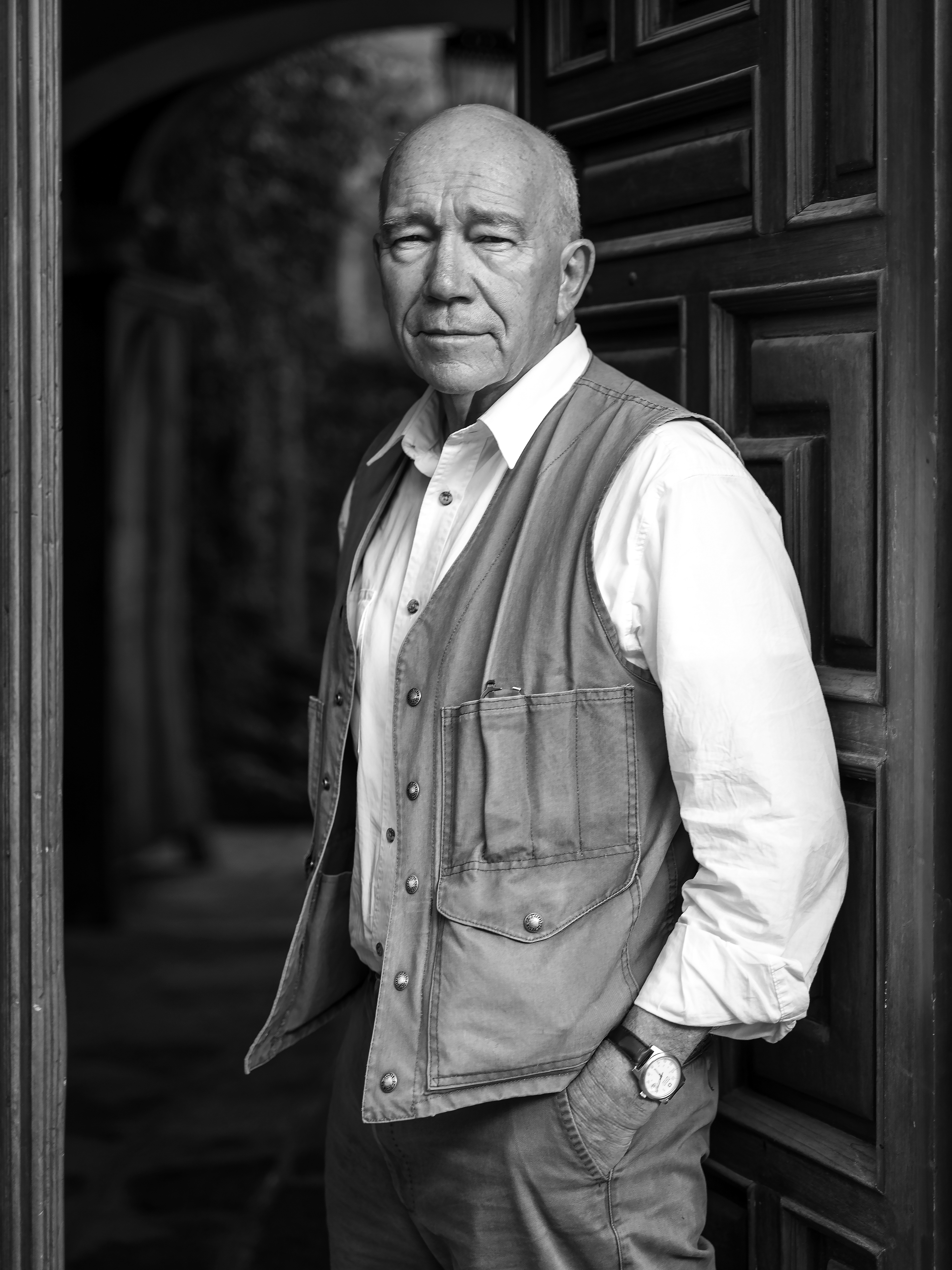 Sam Abell (2016) taken in San Miguel de Allende by Christopher Michel